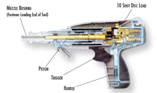 This is a diagram of a powder actuated tool